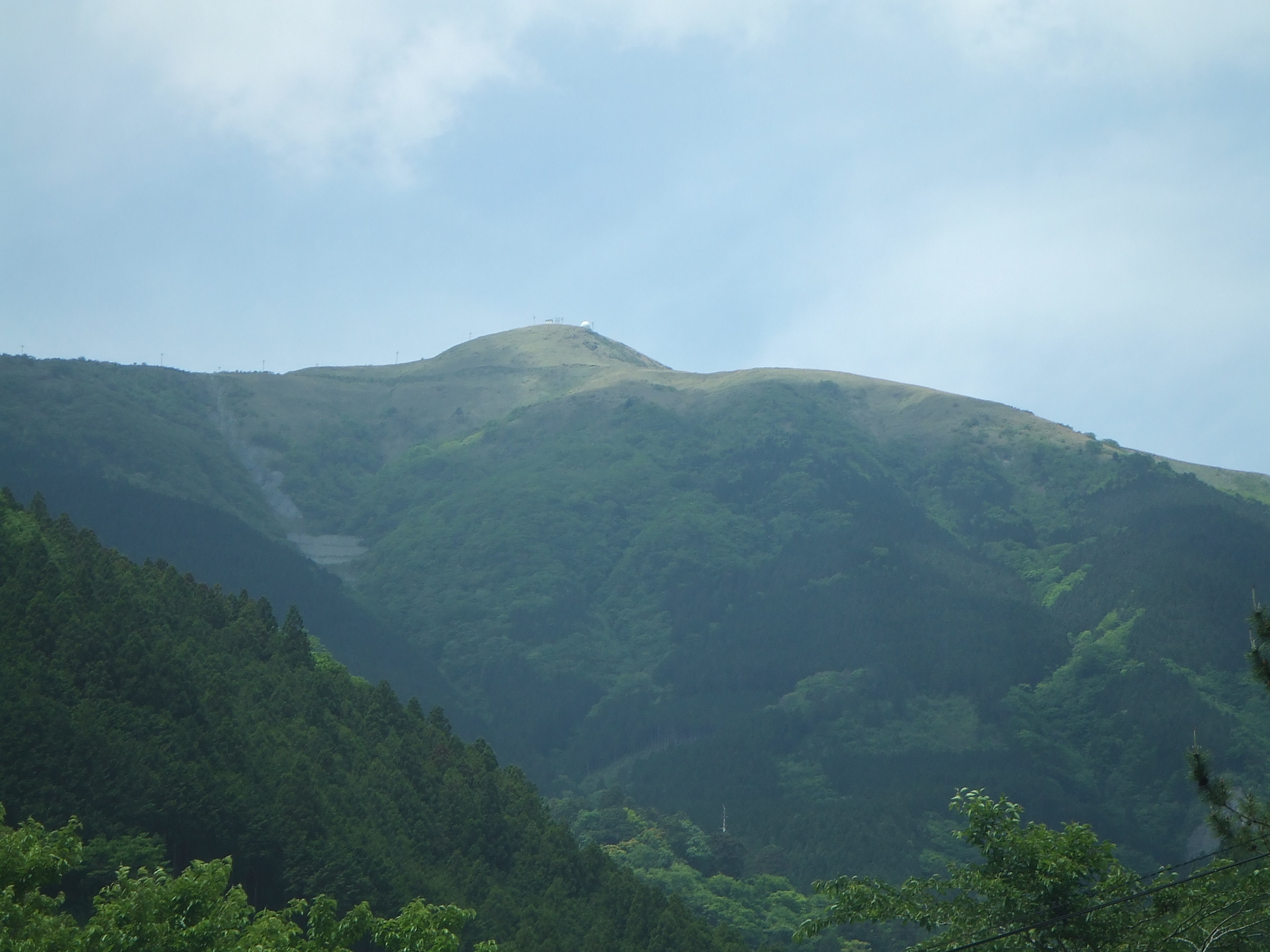 Mount Nakatsumyojin as seen from halfway to the summit